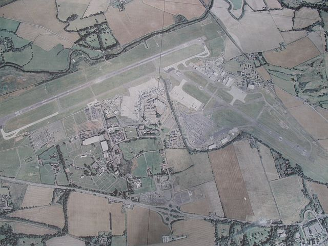 Meta-geographing Grabbing the one land Edinburgh square that has so far eluded me - the airport. Taken while walking over a big photo of the City of Edinburgh Council's area. Detail of the airport and Ingleston.